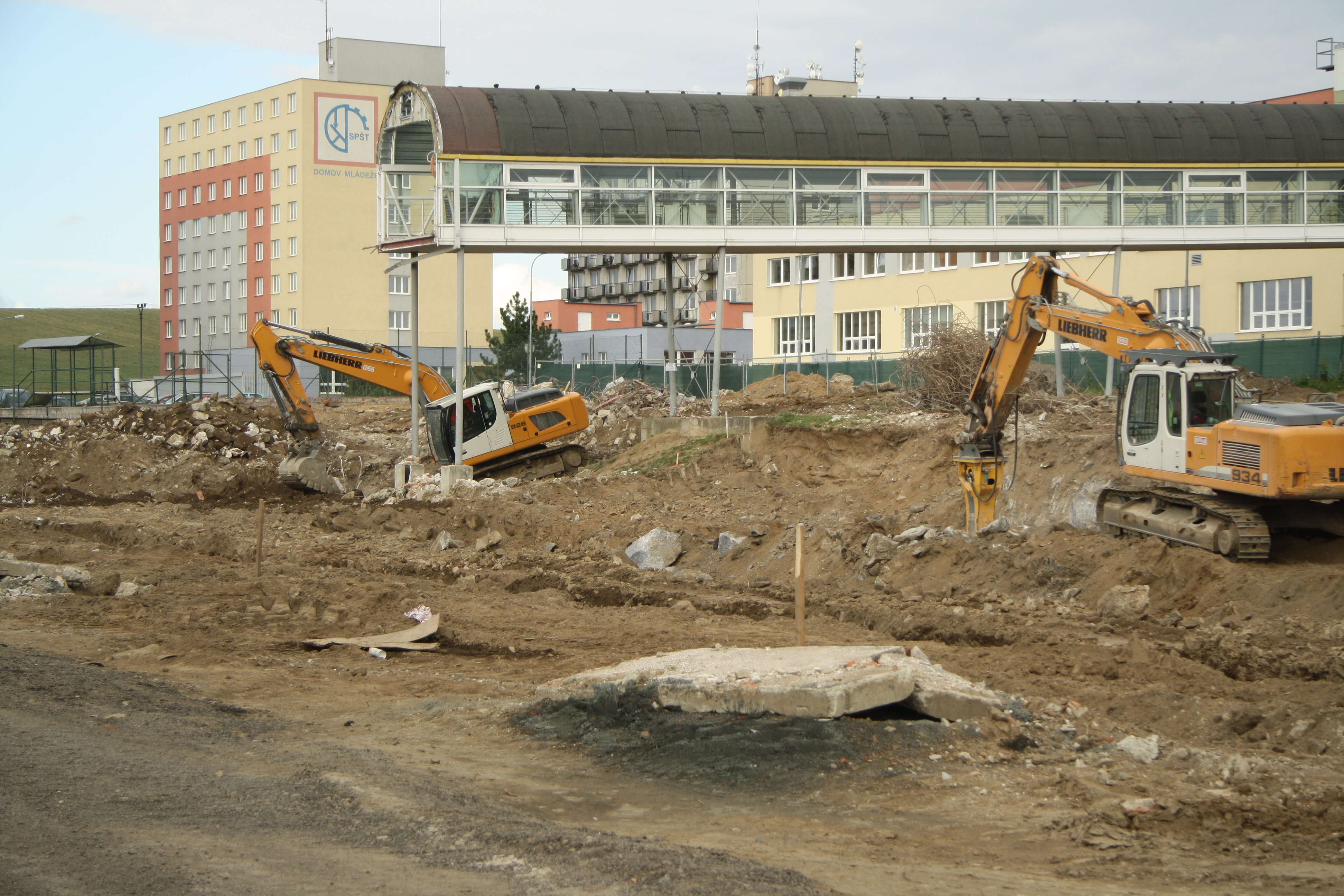 Overview of reconstruction of Secondary Technical School Třebíč in Třebíč, Třebíč District.